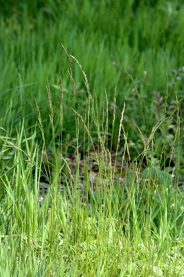 Picture taken in Commanster, Belgian High Ardennes . Species: Festuca rubra